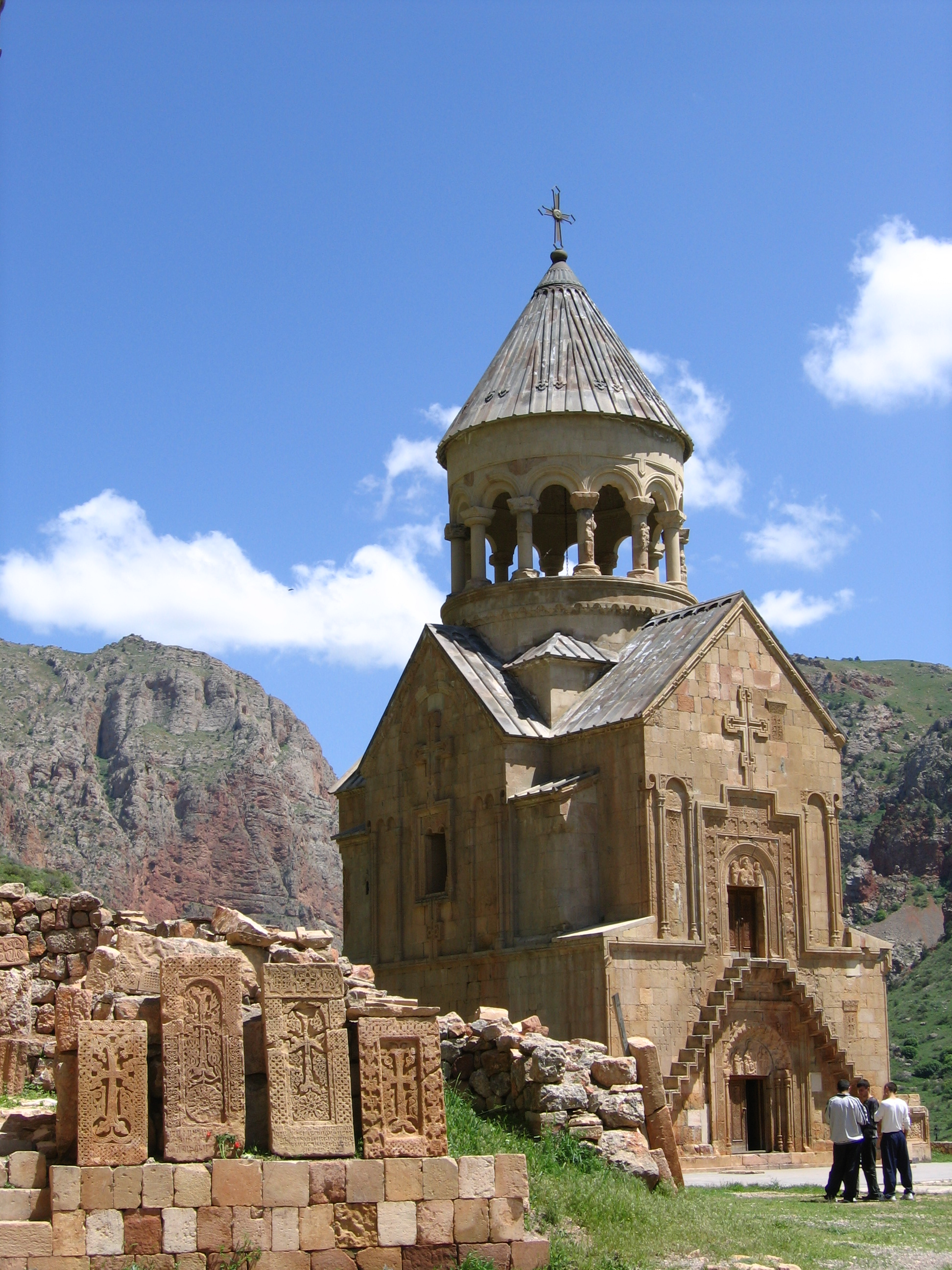 The facade of S. Astvatsatsin Church at Noravank Monastery